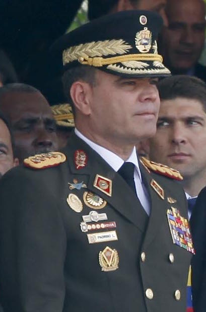 Vladimir Padrino López during the commemoration of the death of Hugo Chavez on 5 March 2014.